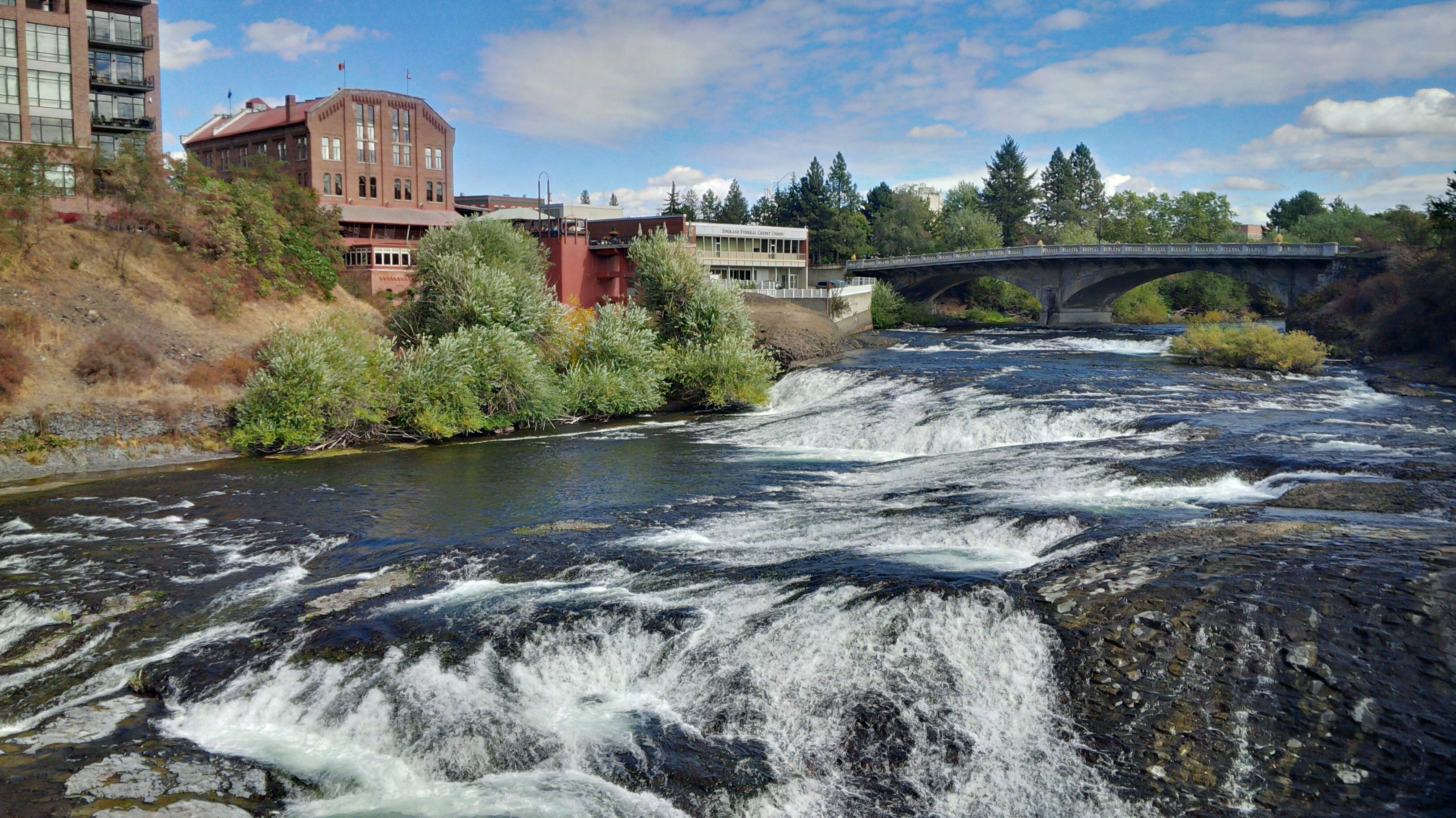 Spokane Falls at Low Water